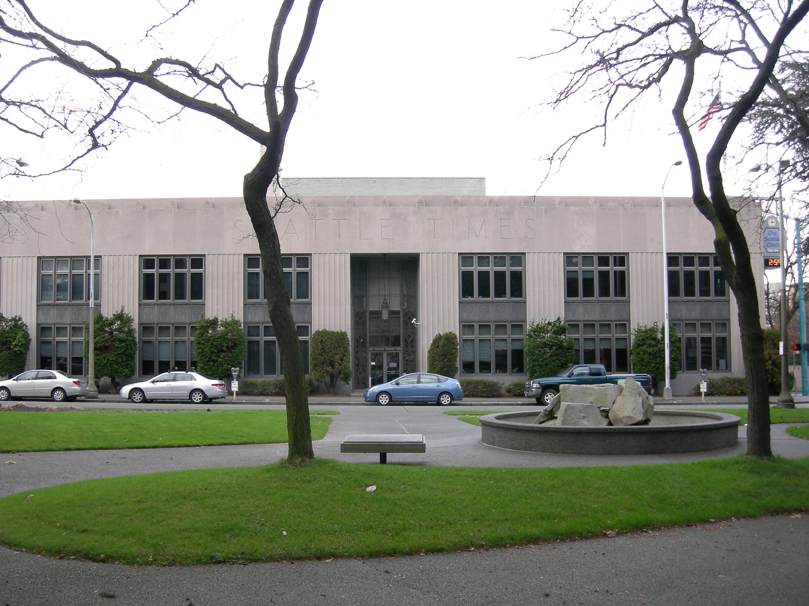 The Seattle Times Building, 1120 John St. (corner of Fairview Ave. N.) in the Cascade neighborhood of Seattle, Washington, USA. The building is an official Seattle landmark.